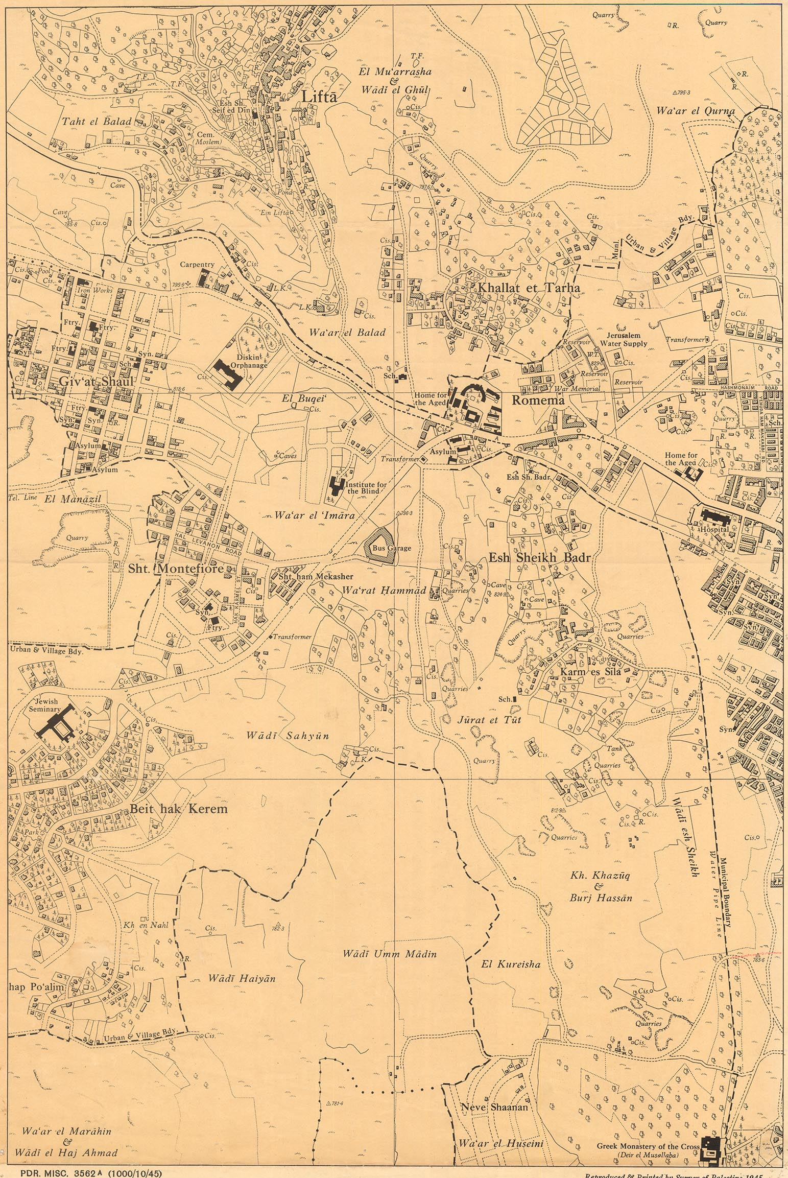 A detailed and accurate measurment map of Jerusalem, produced by the Survey of Palestine, 1945. Scale 1:5,000.